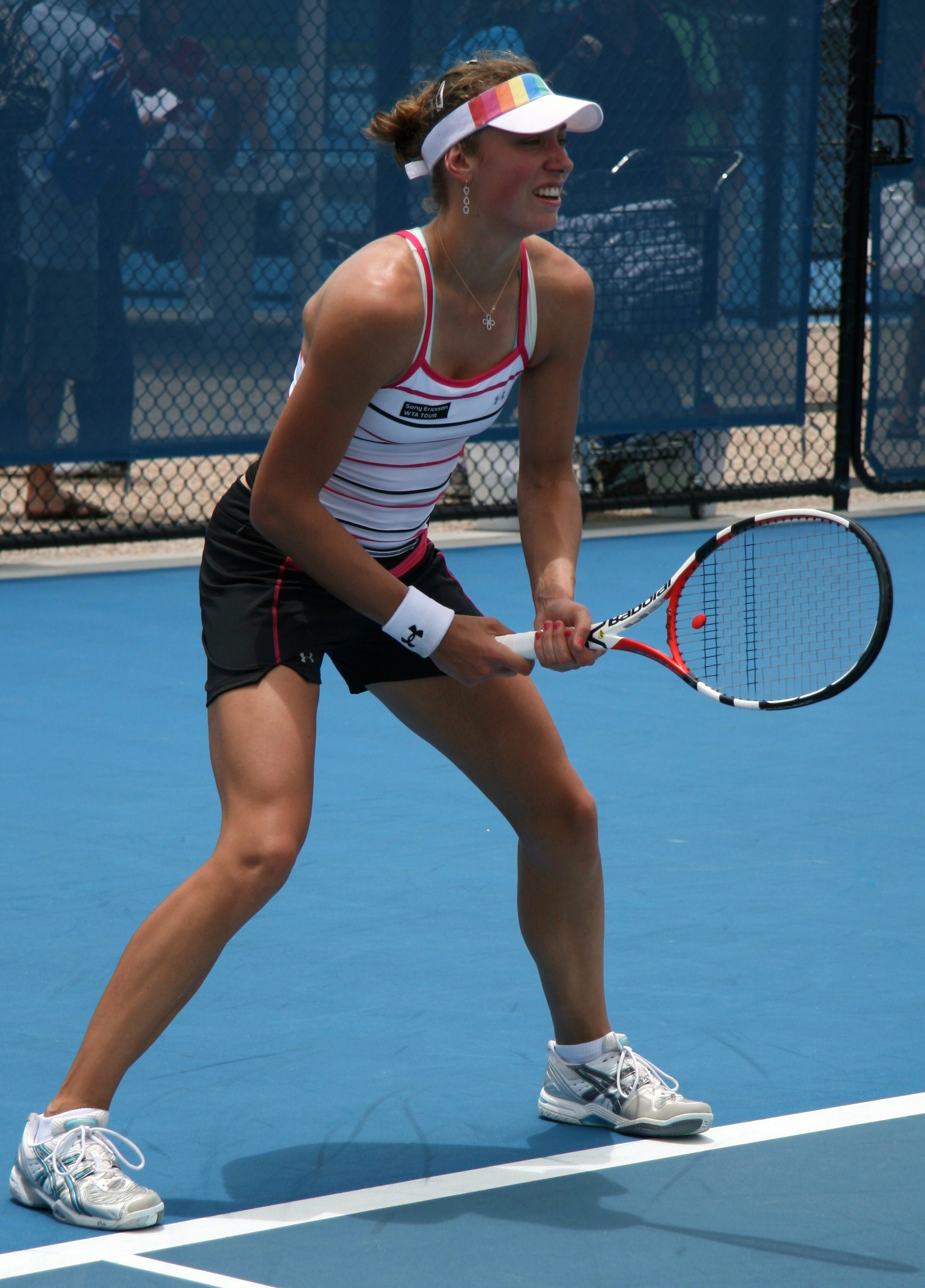 Yanina Wickmayer at the 2009 Brisbane International